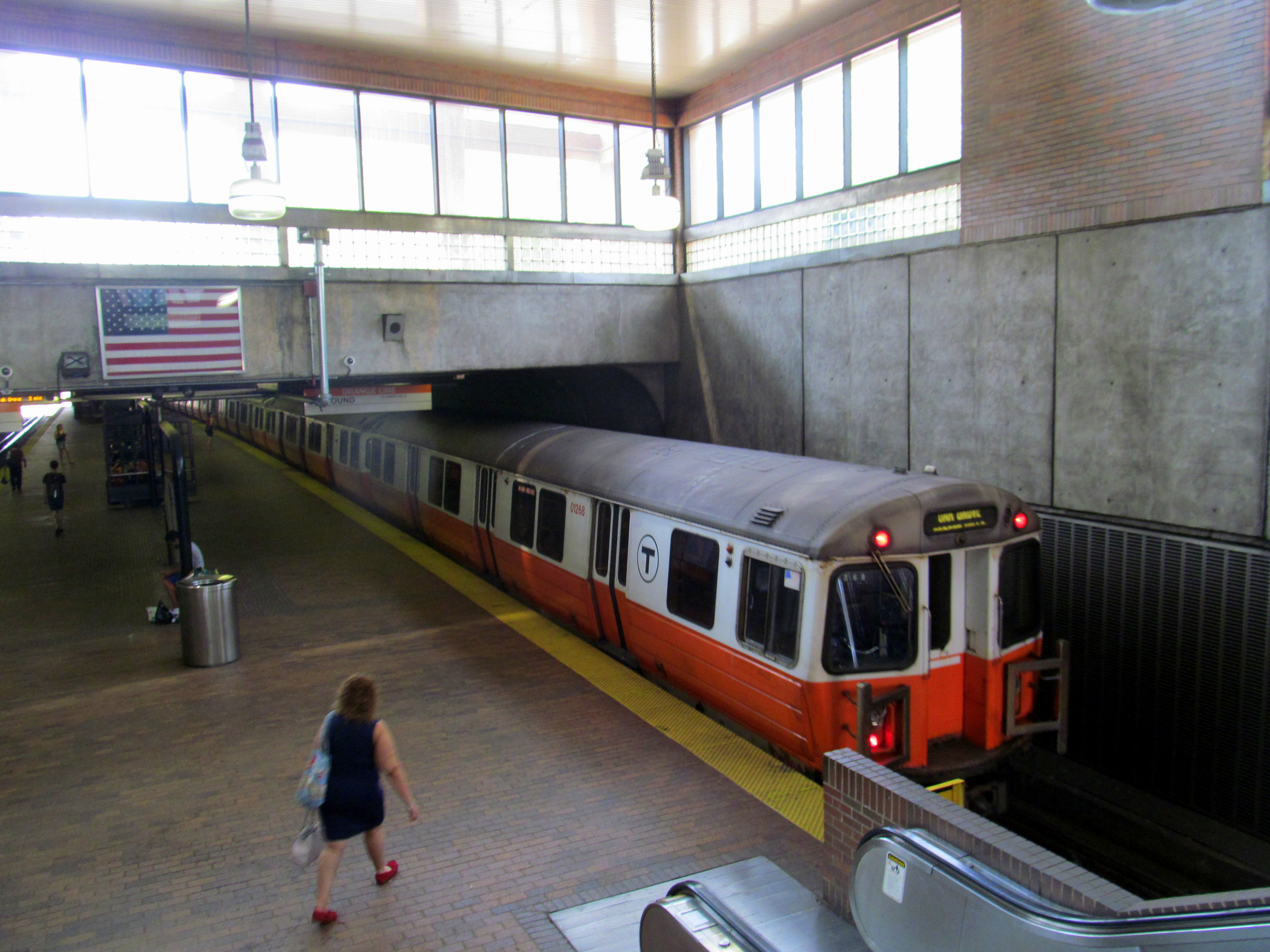 A southbound Orange Line train at Stony Brook station in July 2016